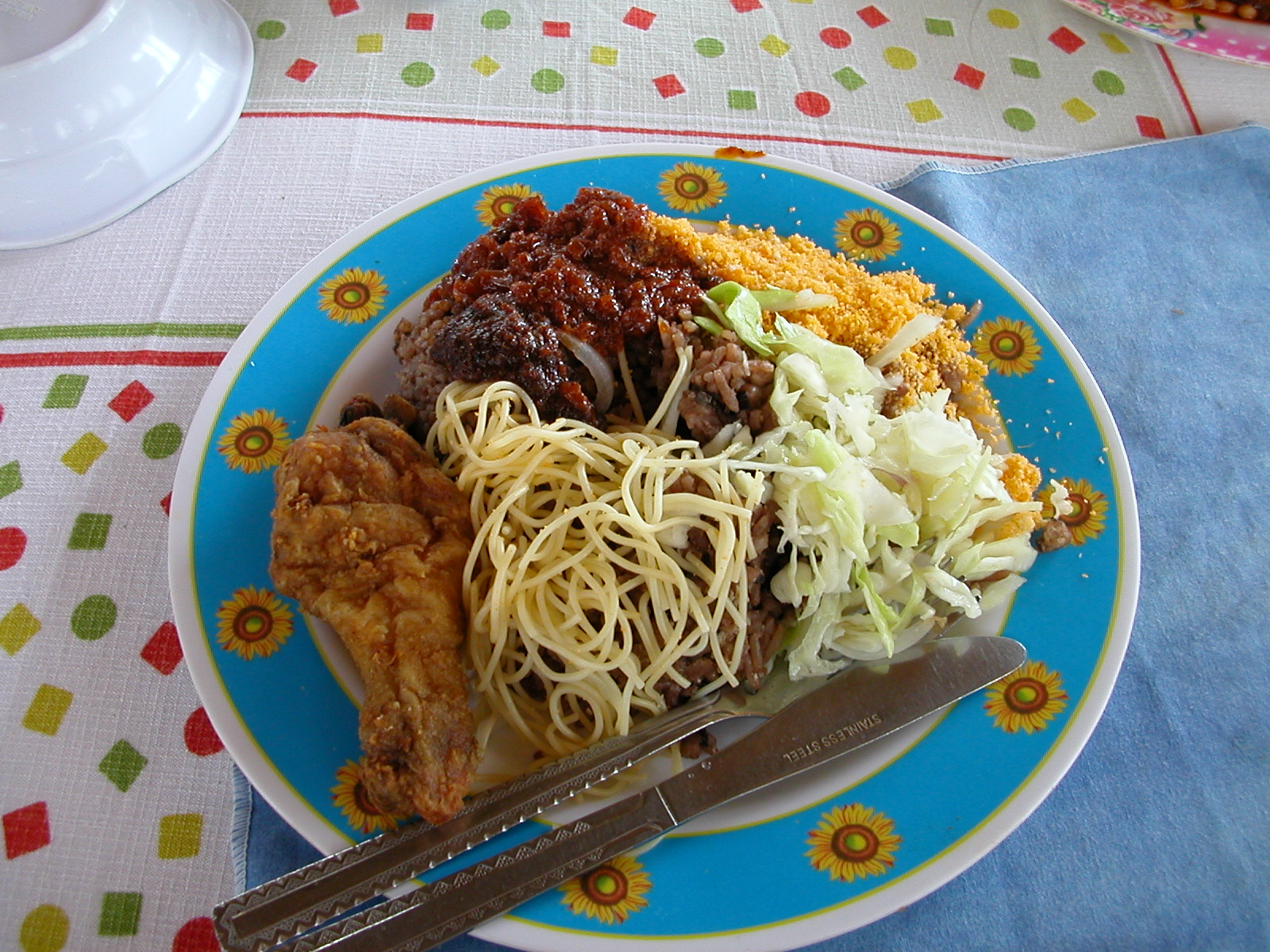 Wache (or Waakye) is a Ghanaian cuisine. Wache (or Waakye) at a restaurant in Ghana.